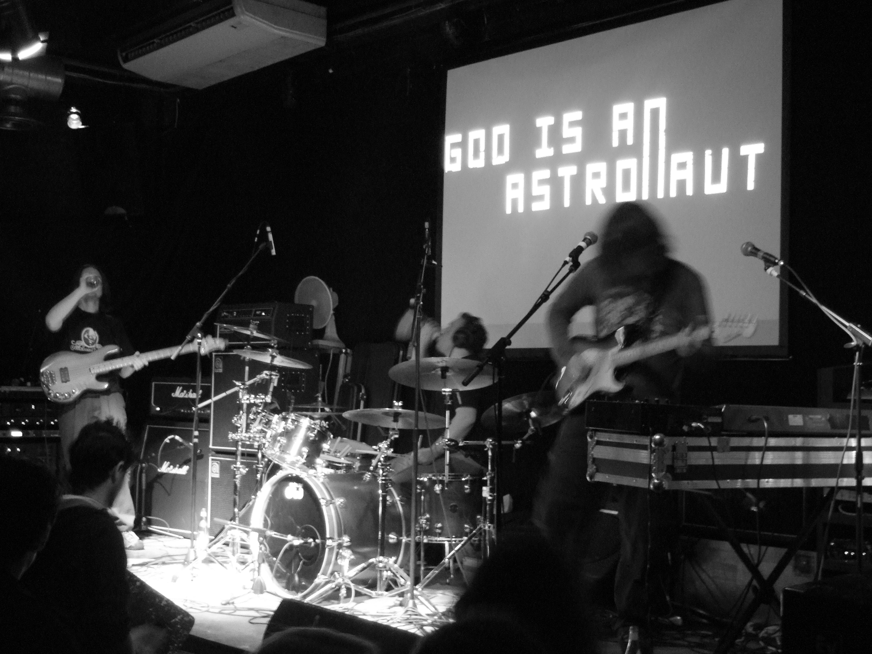 God Is an Astronaut, Hoxton Bar and Grill